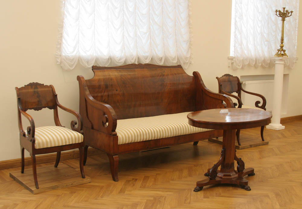 Radishchev Art Museum